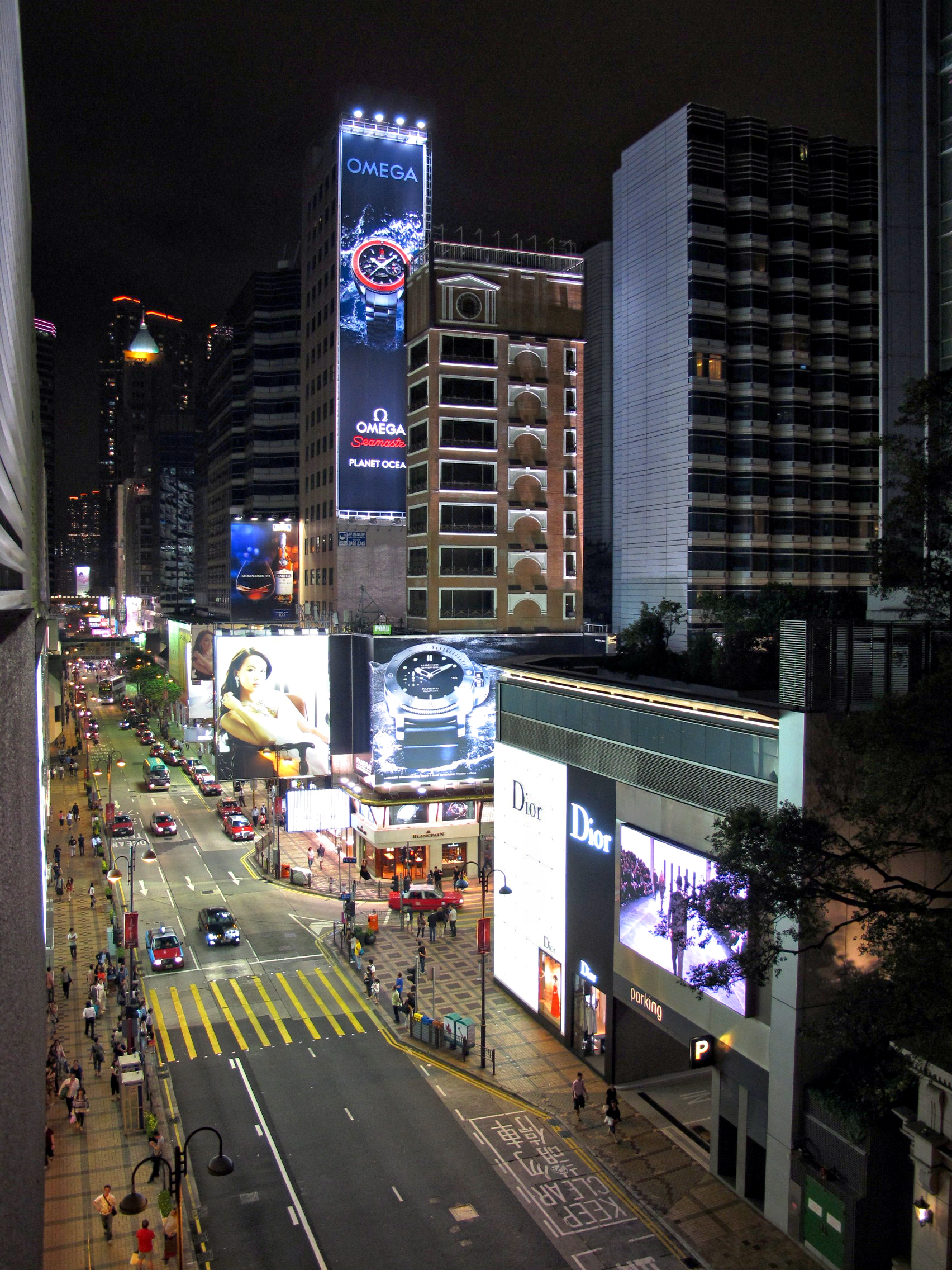 Canton Road Night View 廣東道